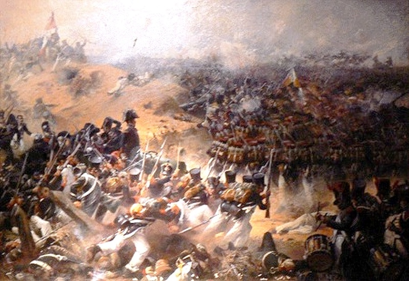 French assault on the Great Redoubt at the battle of Borodino